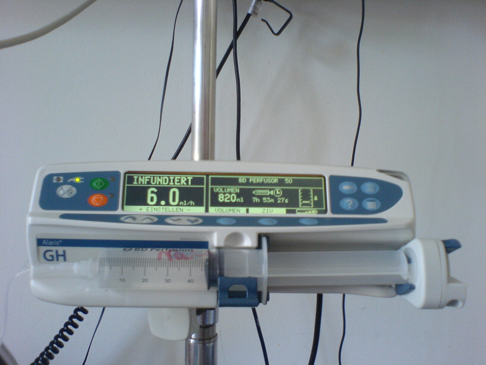 BD Perfusor (volumetric pump), type Alaris